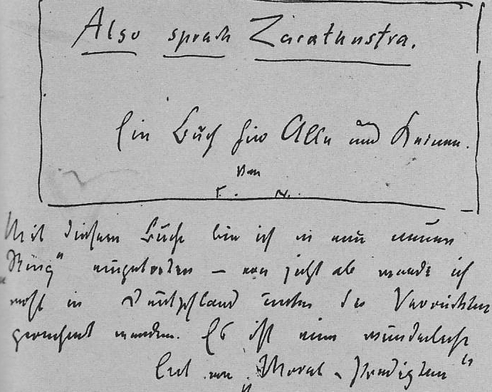 Friedrich Nietzsche announces the title of his new book in a letter to Heinrich Köselitz